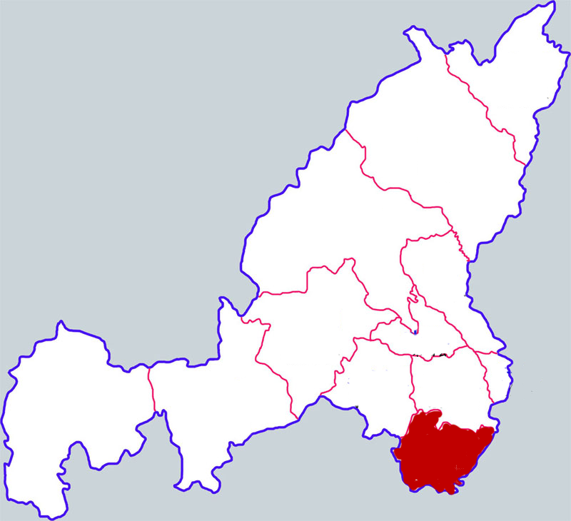 Location of Qingjian county in Yulin city, Shaanxi province, China